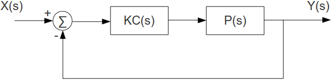 root locus example system diagram